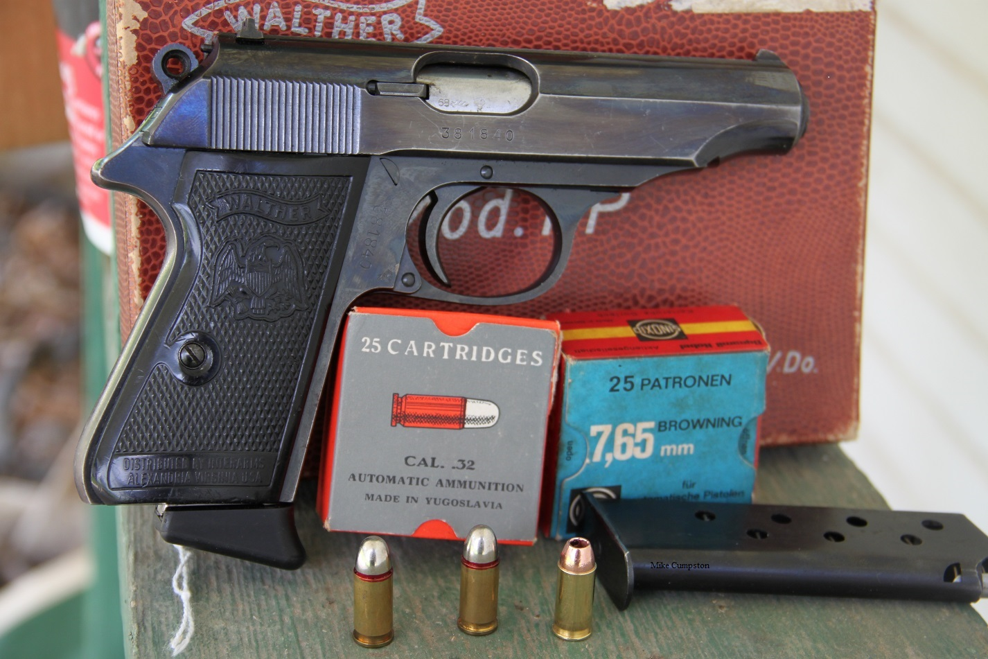 Walker PP .32 made in Germany 1n 1968 courtesy Mike Cumpston